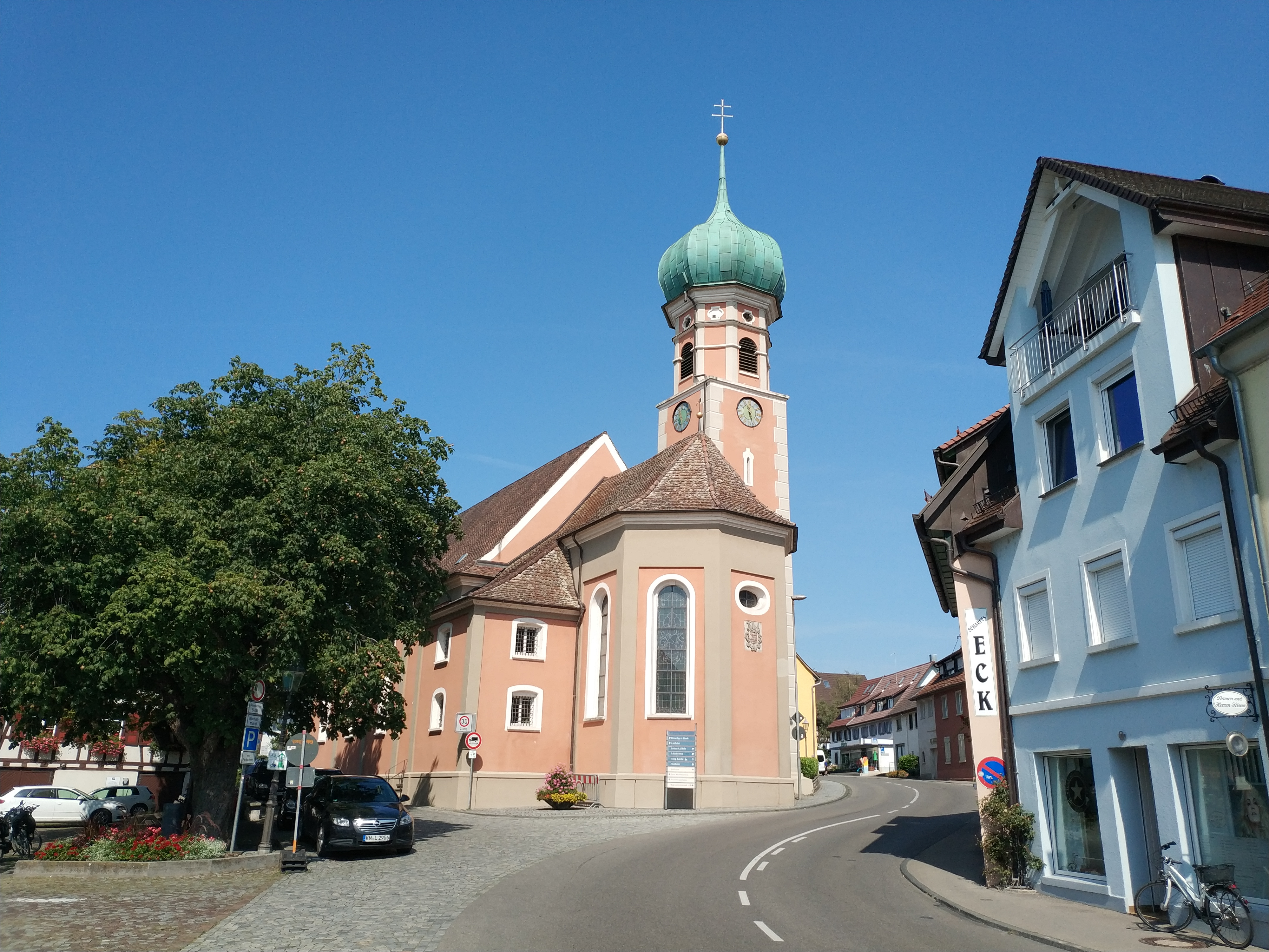 View on St. Nicolai church in Allesbach